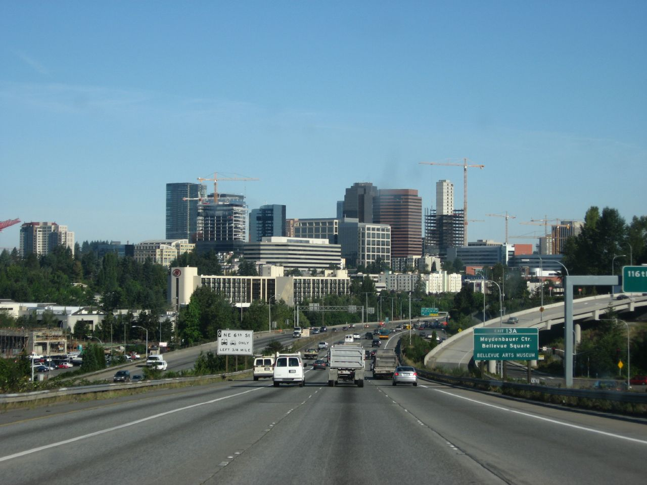 Interstate 405 approaching downtown Bellevue, Washington.